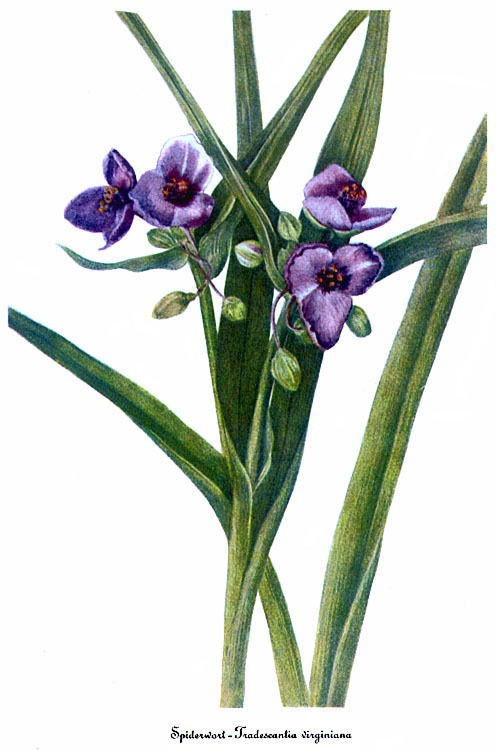 Watercolor painting of Tradescantia_virginiana.